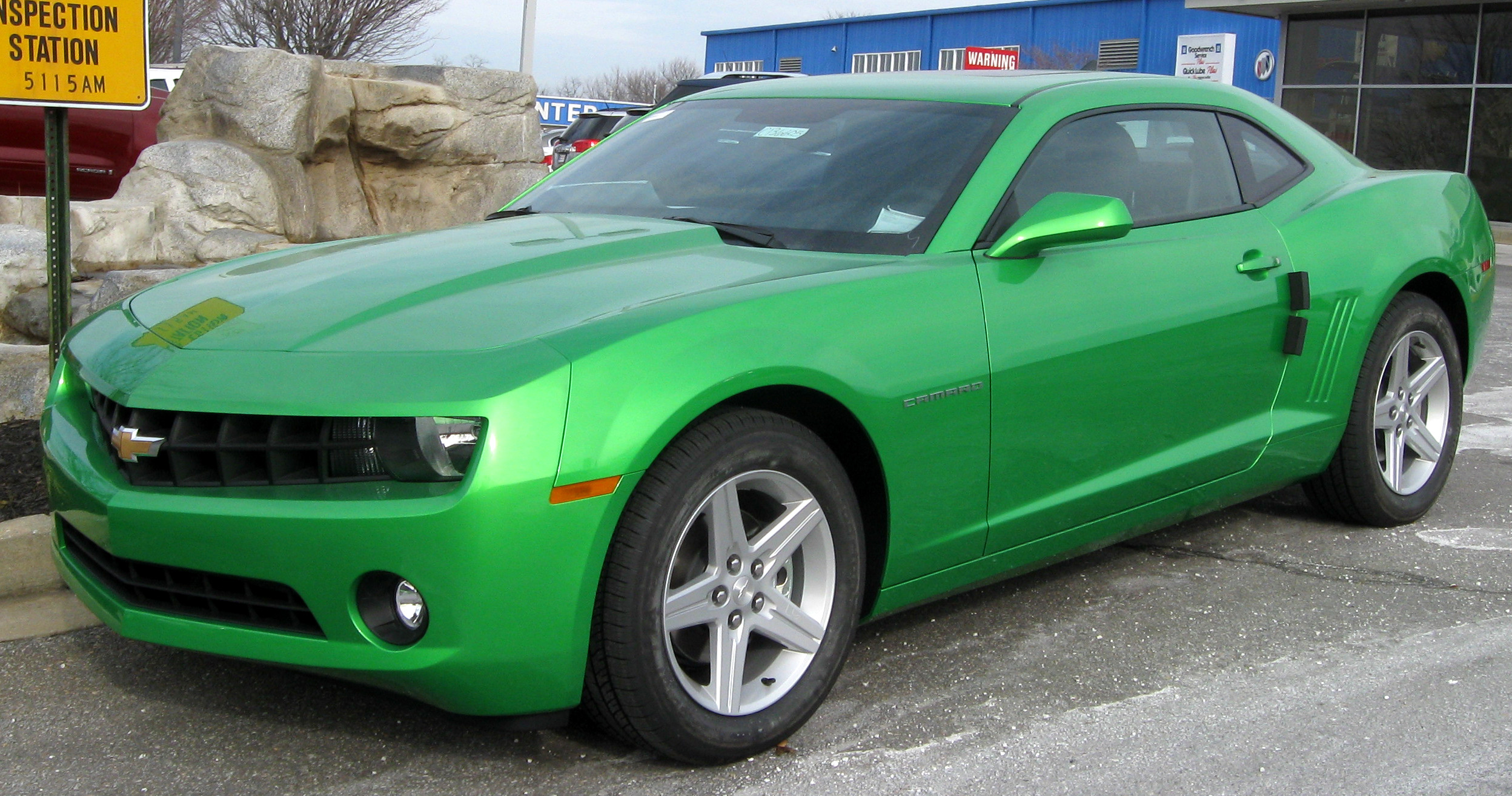 2011 Chevrolet Camaro photographed in Clarksville, Maryland, USA.